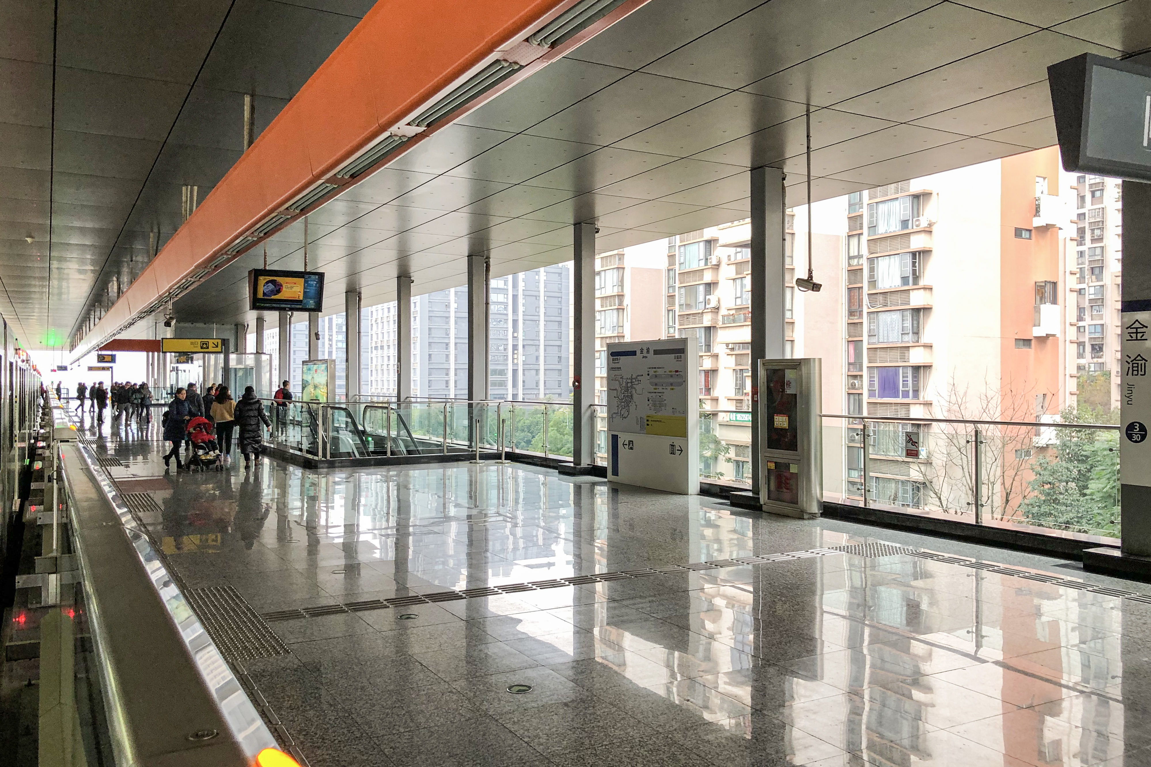 Near the IKEA.